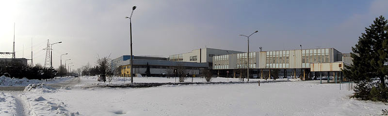 Administration building and the main entrance of Morcinek coal mine in Kaczyce, Poland